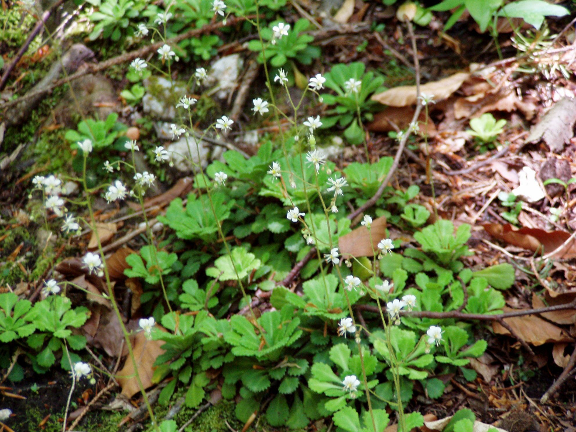 Saxifraga cuneifolia subsp. robusta. Photo taken at Hemmaberg, Carinthia. Shady northside, app. 800 m, calcarious soil, forest (Fagus sylvatica, Picea abies).